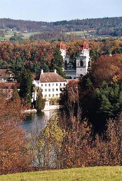 Rheinau Abbey, Switzerland